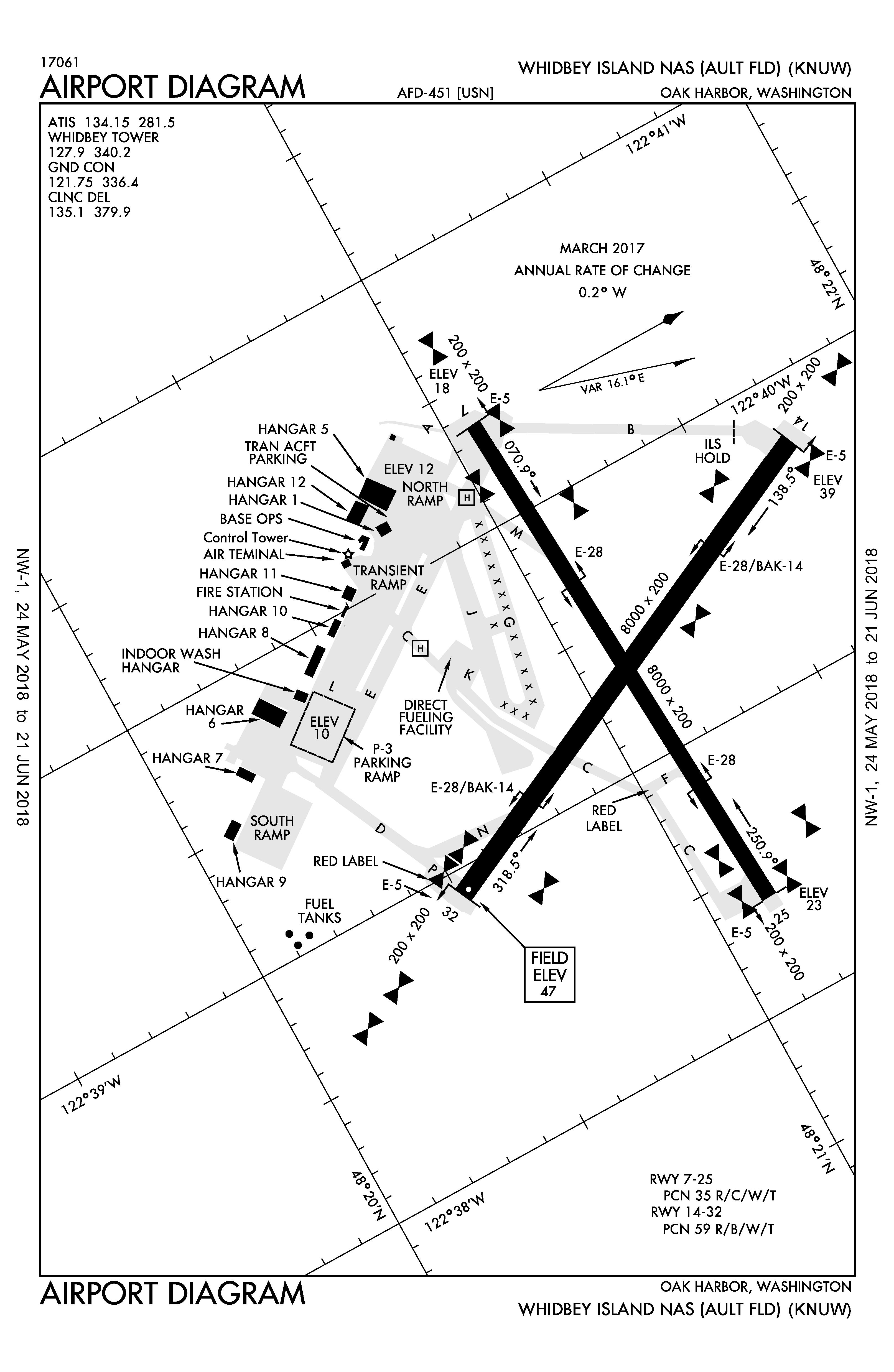 Naval Air Station Whidbey Island (NASWI) Airport Diagram, produced by the Federal Aviation Administration in March 2017